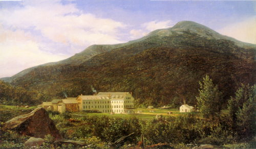 Mount Washington from the Back of the Glen House Looking across Pinkham Notch (oil on canvas, 15 3/4 x 27 inches)